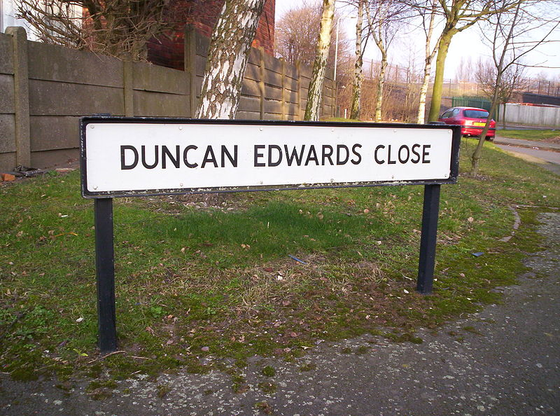 I took this picture myself